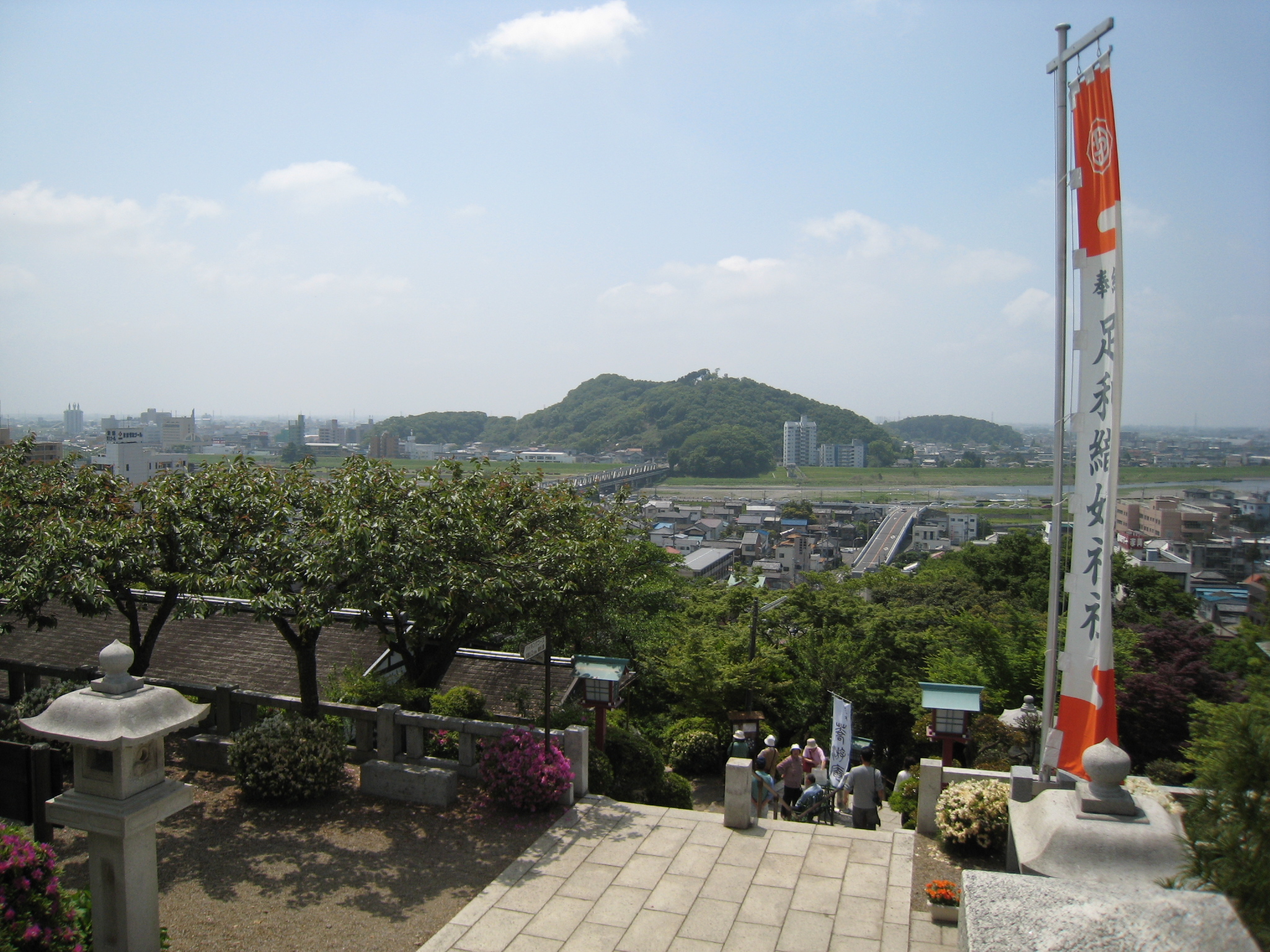 Watarase River's view from Orihime Shrine in Ashikaga, Tochigi Prefecture,Japan.